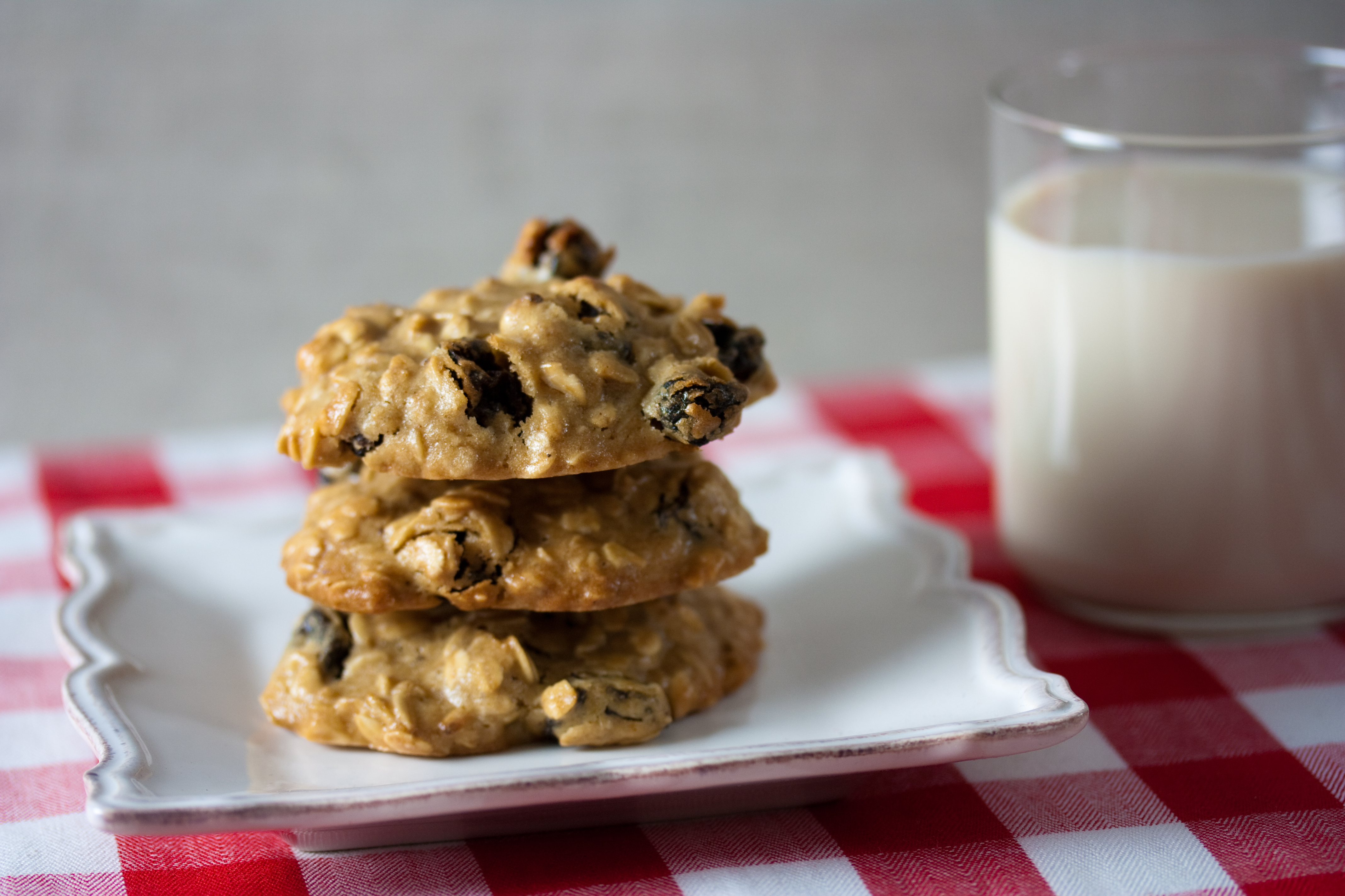 Chewy Vegan Oatmeal Raisin Cookies